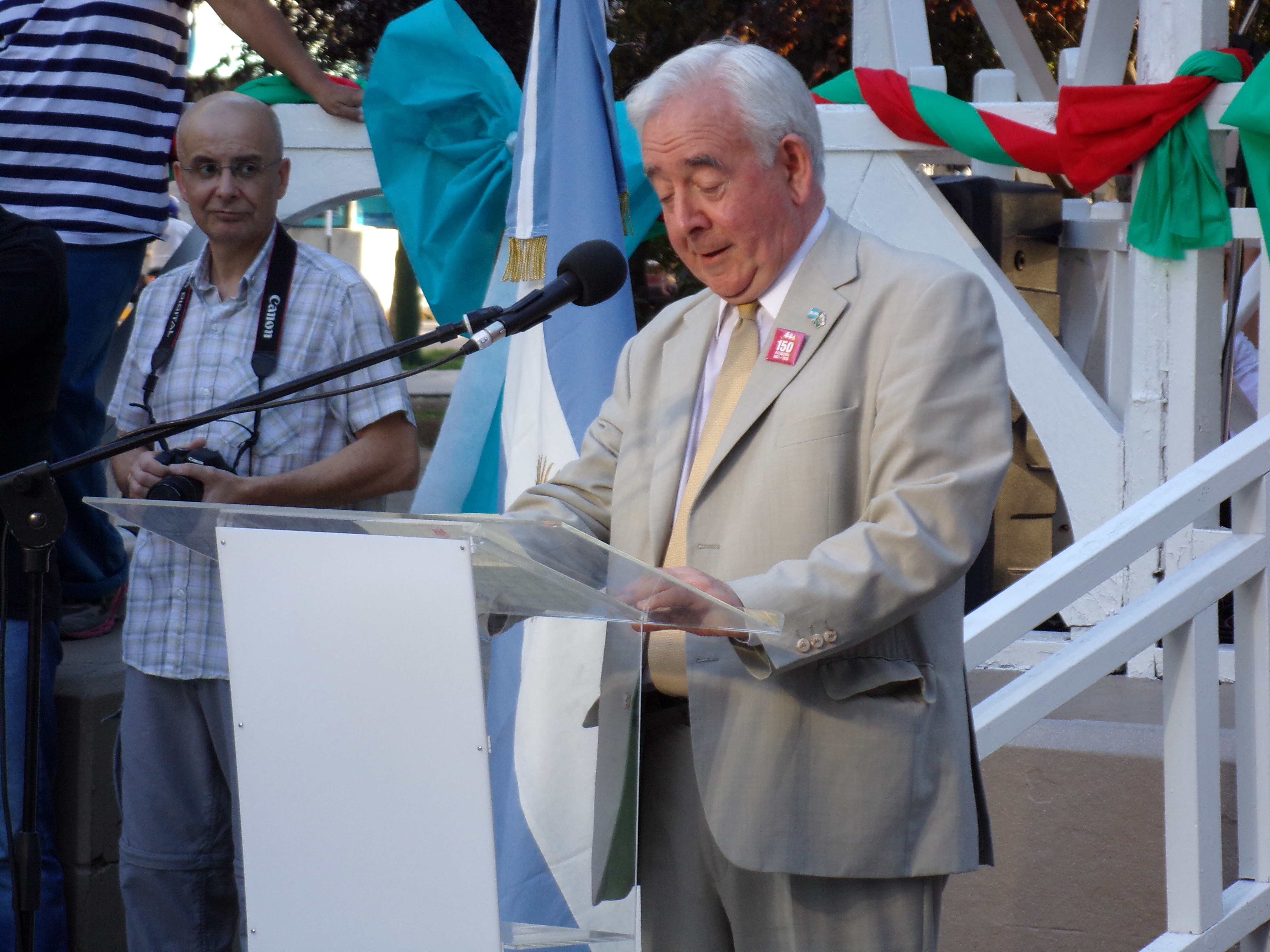 Twinning agreement between Trelew, Argentina, and Caernarfon, Wales.